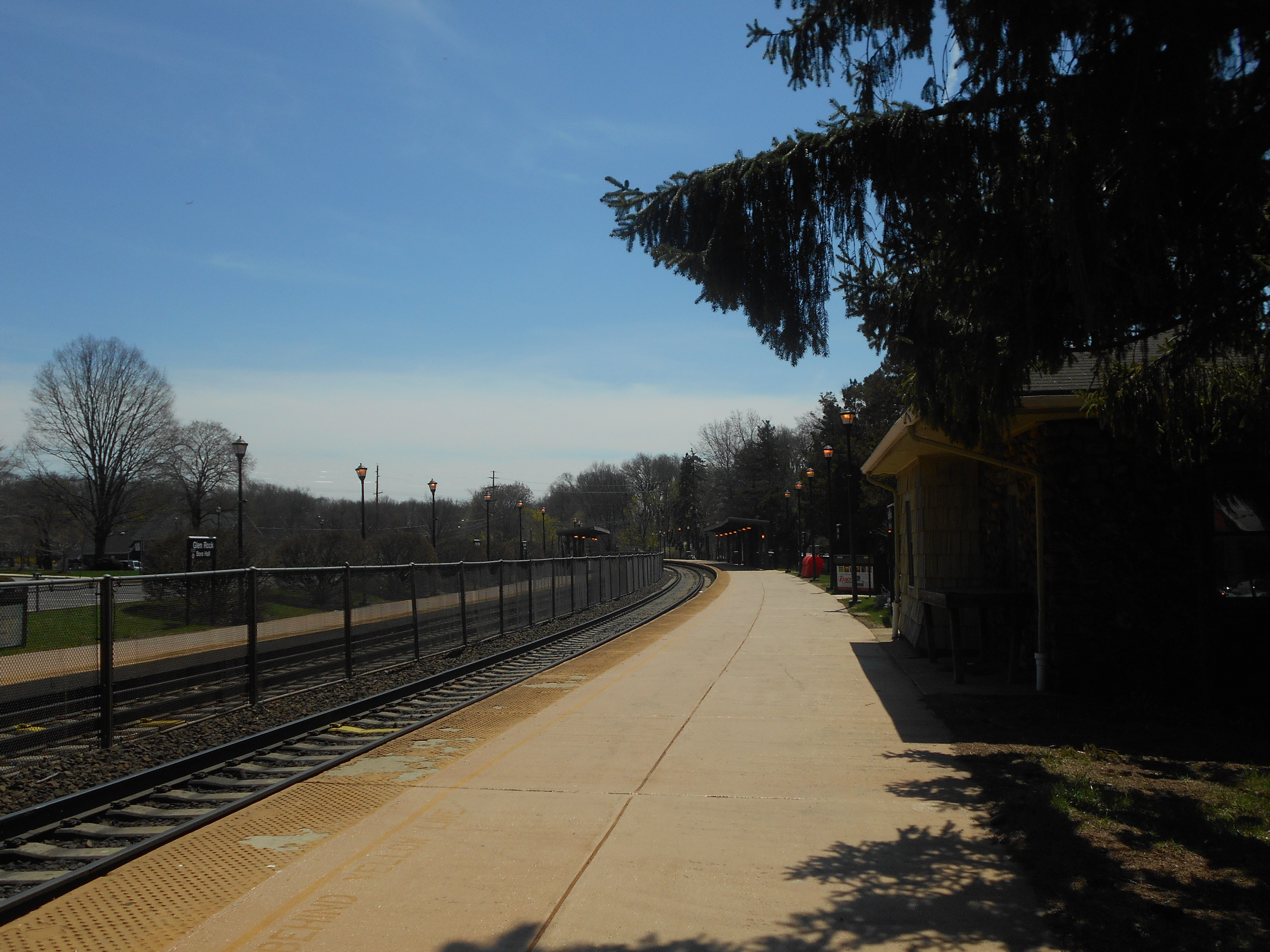 The Glen Rock-Boro Hall station in Glen Rock, New Jersey